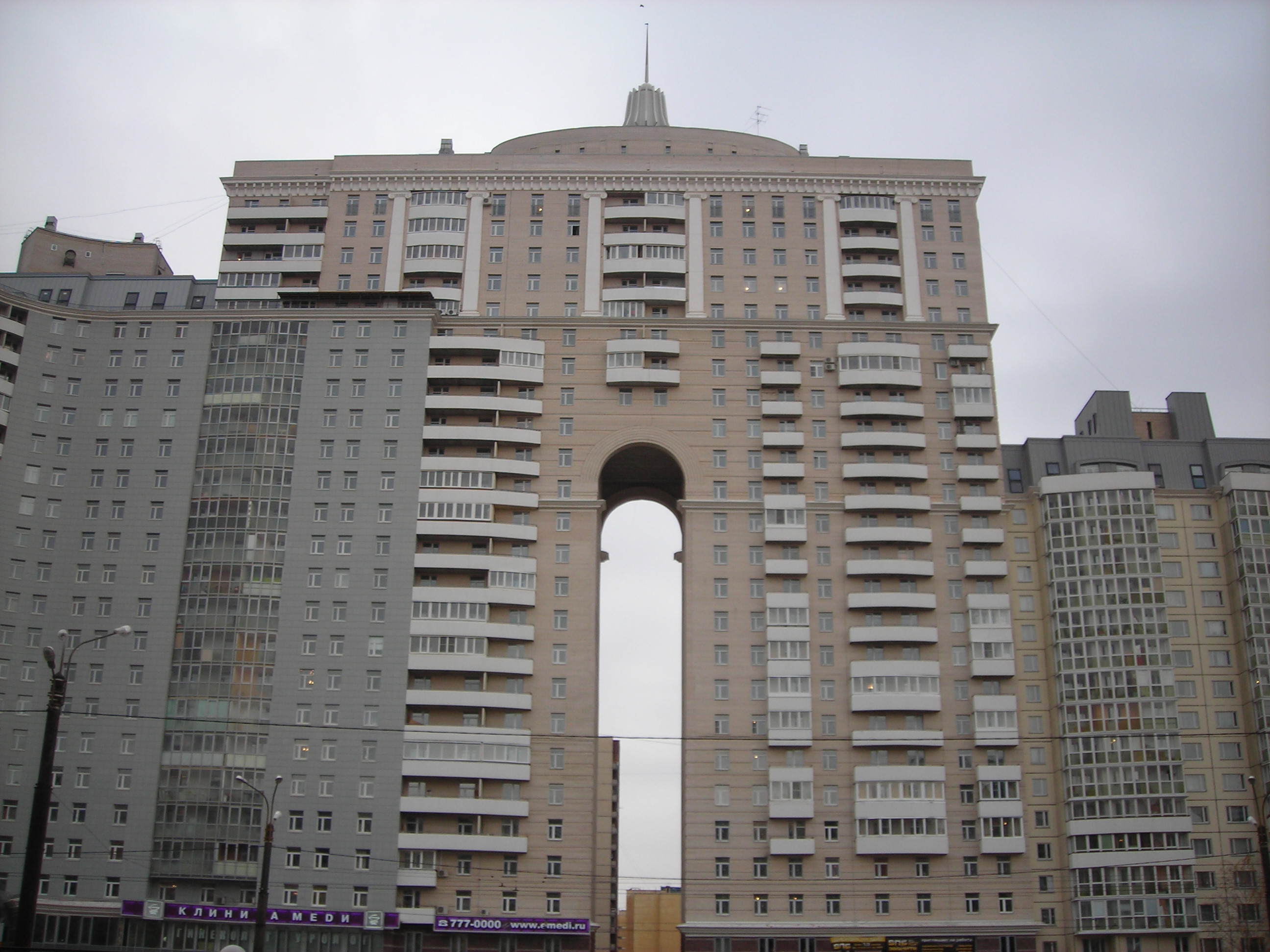 House on Komendantsky prospect, Spb